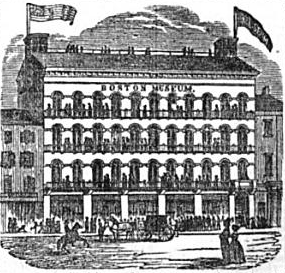 The Boston Directory Published by George Adams, 1851